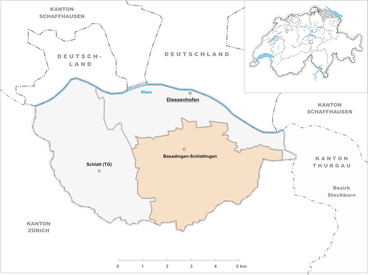 Municipality Basadingen-Schlattingen